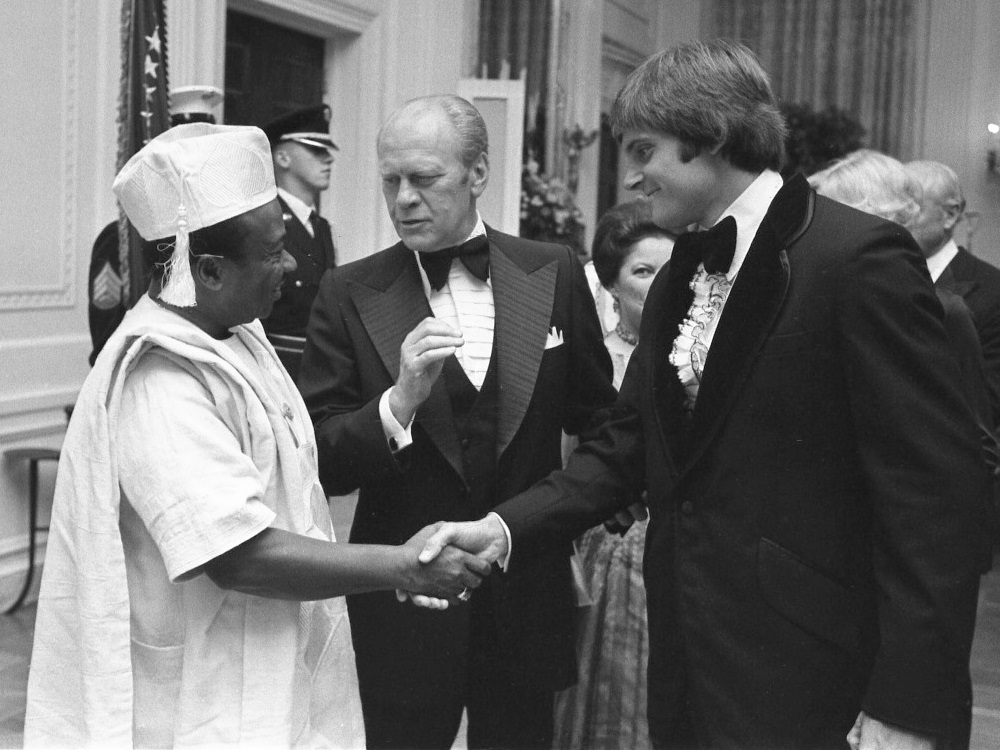 September 21, 1976: "As usual, the guest list for this dinner included individuals from a wide variety of fields. President Ford and President William Tolbert of Liberia greeted athlete Bruce Jenner, who had won the gold medal in the decathlon at the 1976 Summer Olympics, in the receiving line."